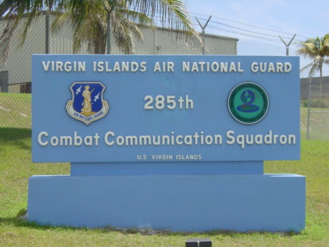 U.S. Air Force entrance sign of the 285th Combat Communications Squadron, U.S. Virgin Islands Air National Guard.